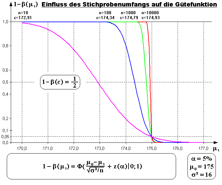 Influence of the sample size on the power function of a one-sided statistical test